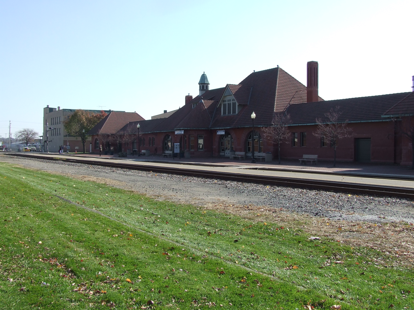 The Kalamazoo Transportation Center train station, looking south-east.